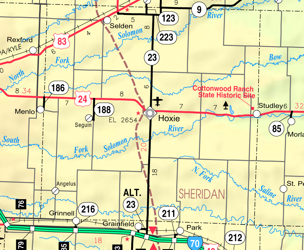 This map of Sheridan County, Kansas, USA, is copied at a resolution of 300 pixels/inch from the original PDF file.